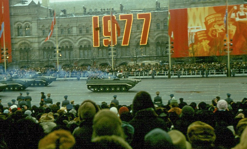 Official demonstration on 7 November 1977 on the Red Square in Moscow